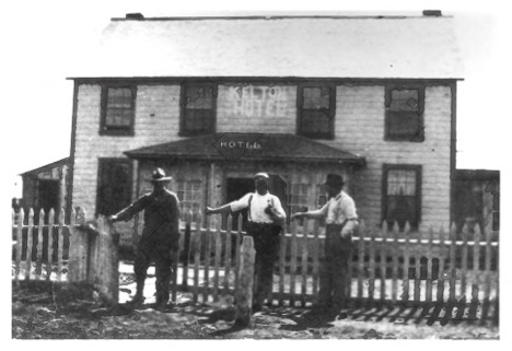 Looking east at former Kelton Hotel in Kelton, Utah, in about 1905